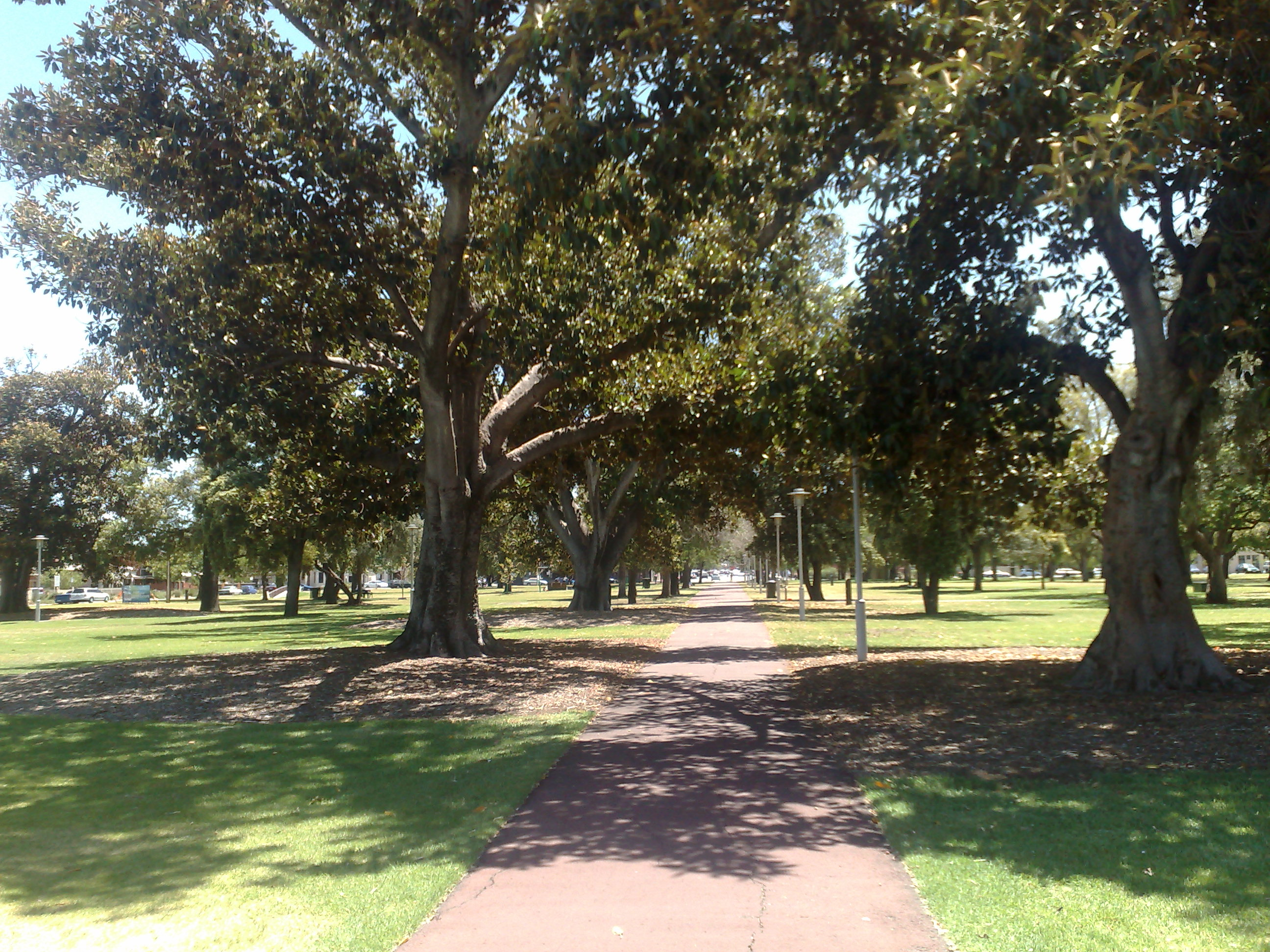 Whitmore square, from the southern end, facing north.